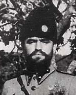 Momčilo Đujić crop